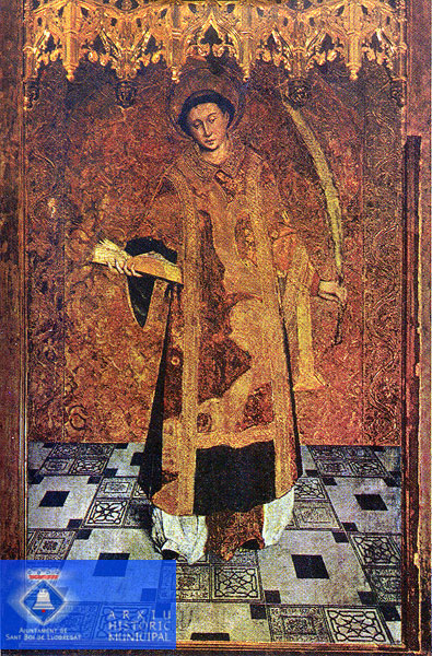 St. Baudilus, painting by Lluís Dalmau, Catalan painter of 15th cent. At the Church of St. Baldiri, in Sant Boi de Llobregat, near Barcelona